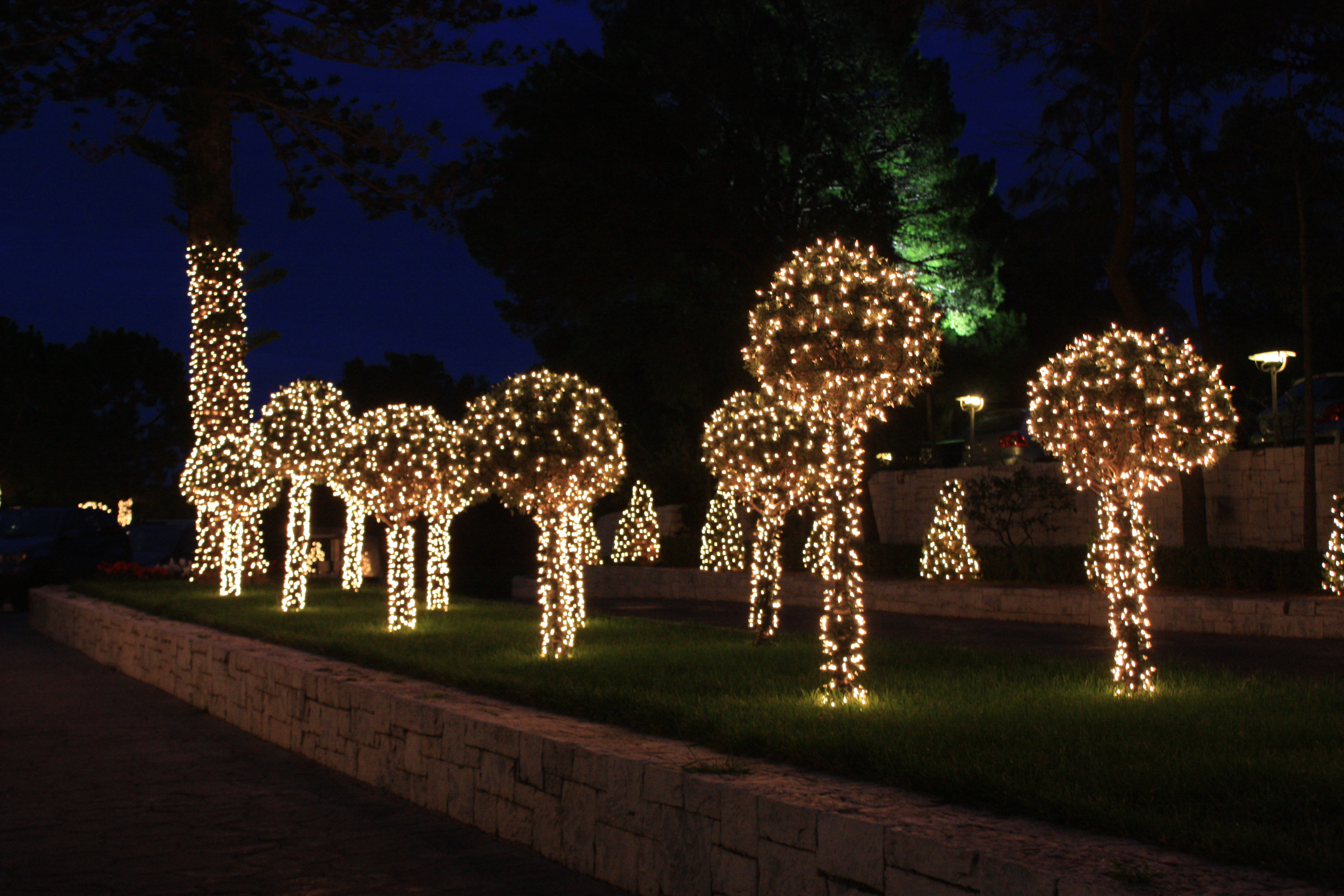 Christmas decorations, Astir Palace Hotel, Vouliagmeni, Athens, Greece, Christmas 2009